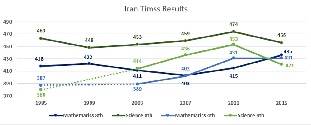 The data collected from Timss 2015 Mathematics and Science Results.